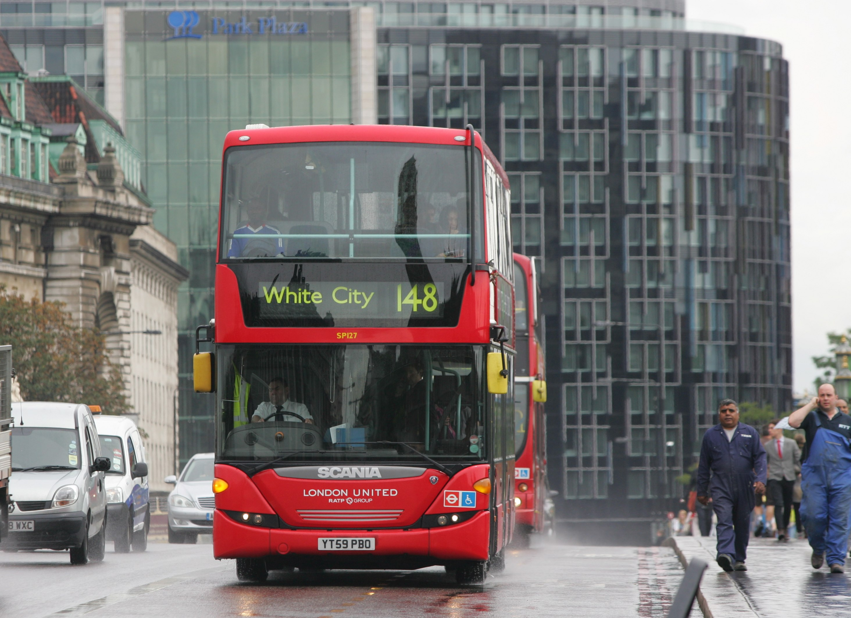 London United bus SP127 (reg. YT59 PBO), a 2009 Scania CN230UD OmniCity double-decker, pictured on Westminster Bridge in London, operating London Buses route 148.